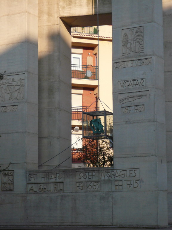 Monument to Josep Moragues, by Domènec Fita in Sant Hilari Sacalm (La Selva, Catalonia)